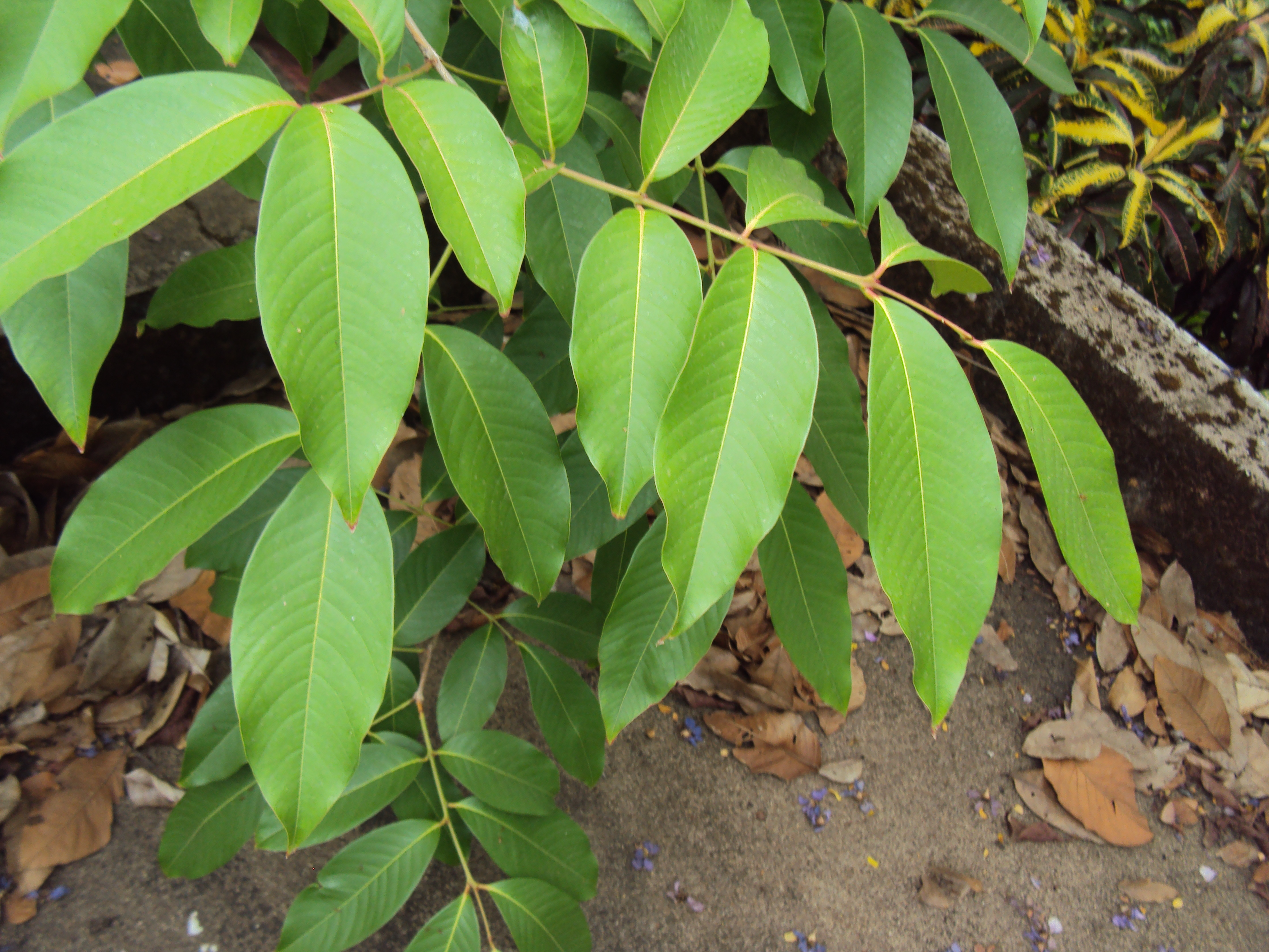 Lagerstroemia speciosa